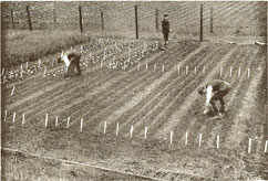 Planting new breeds of clovers at Gartons Experimental Grounds